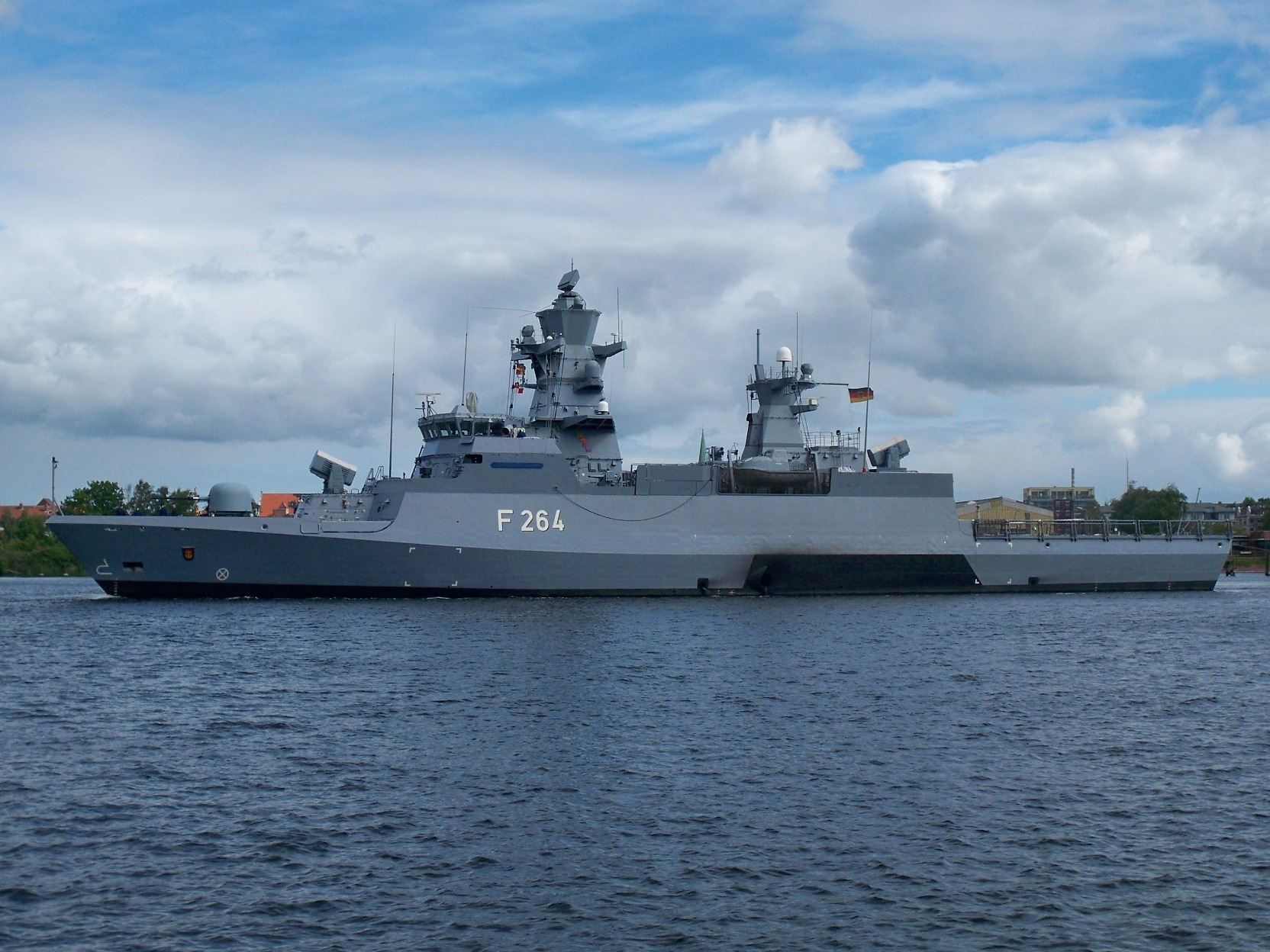 Not yet commissioned corvette Ludwigshafen am Rhein (F 264) at the degaussing range in Wilhelmshaven